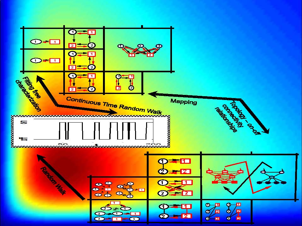 RDF from time trajectories with a comparison of kinetic schemes